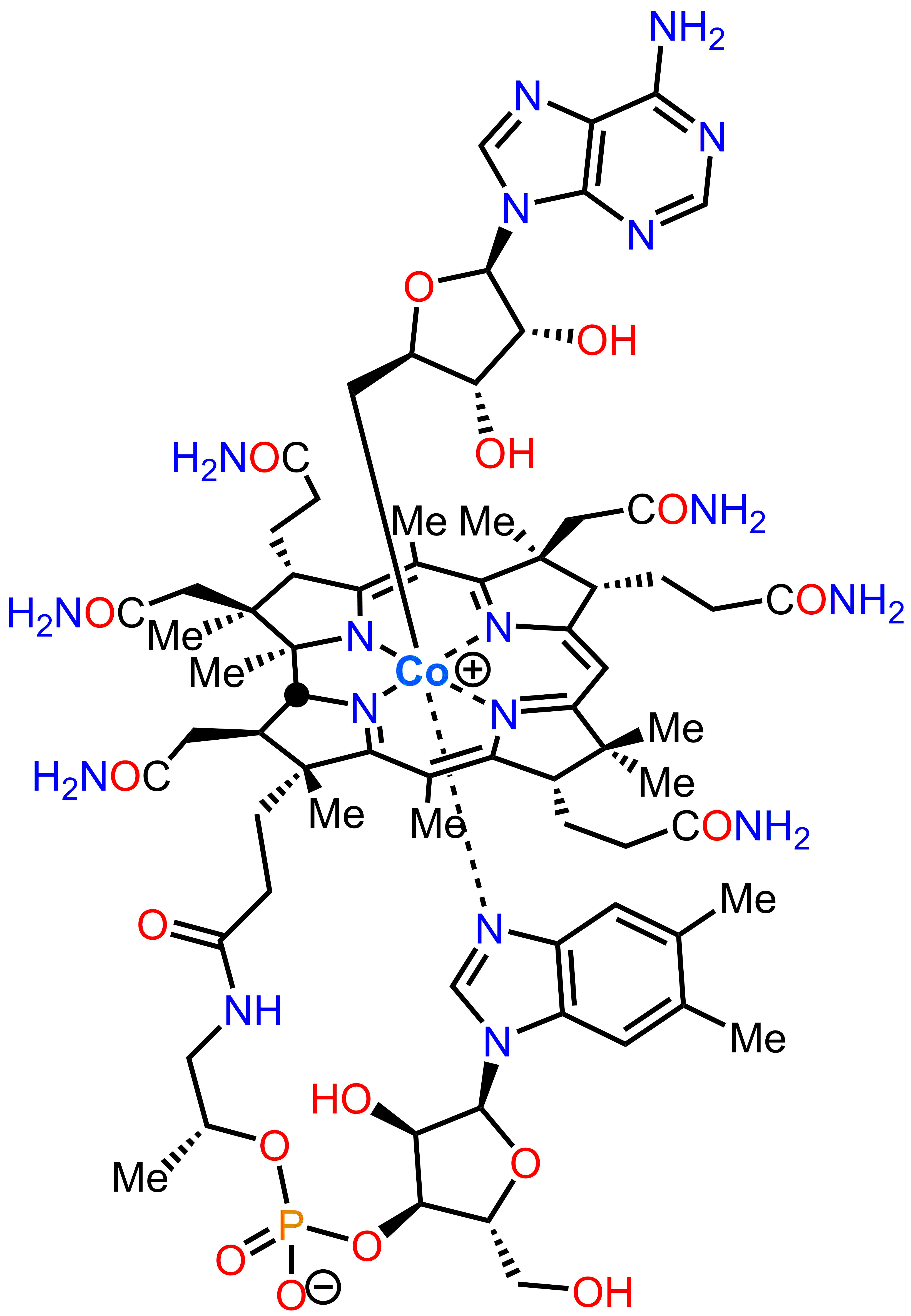 Color coded to same colors as 3D structure